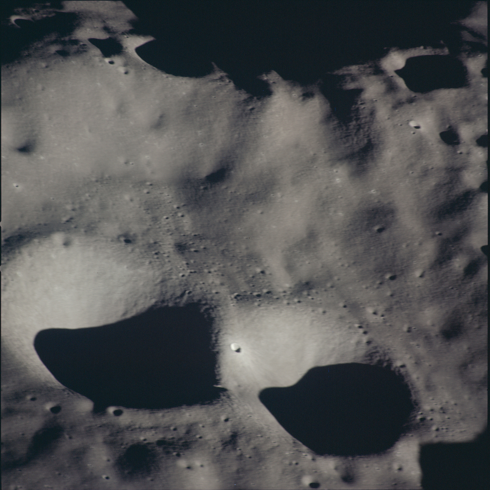 Oblique view of interior of Vil'ev, the far side of the moon. Facing south.